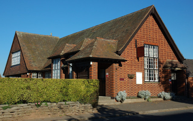 Village Hall Newton Solney Village Hall. It was built in 1926.